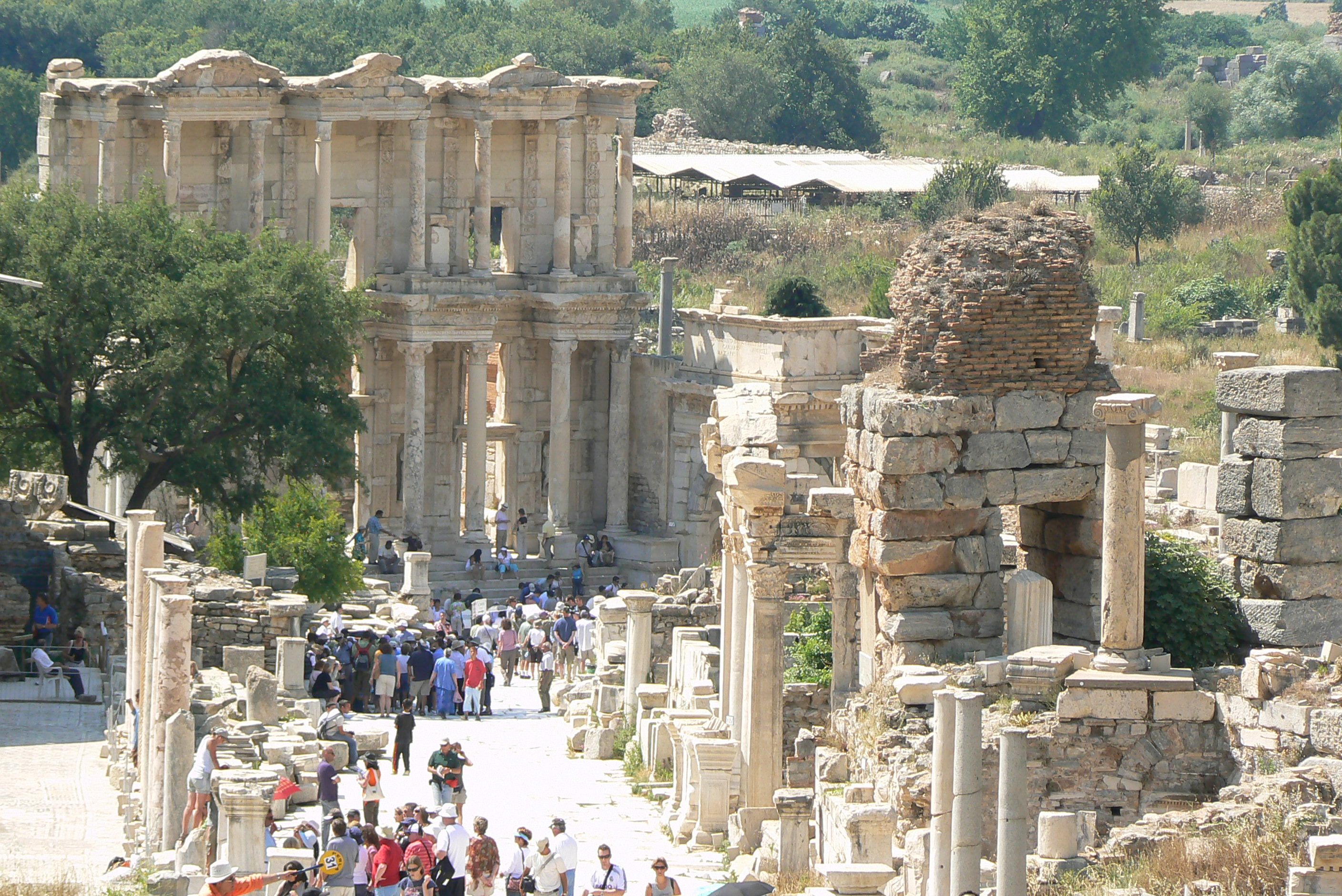 Ephesus, Curetes street